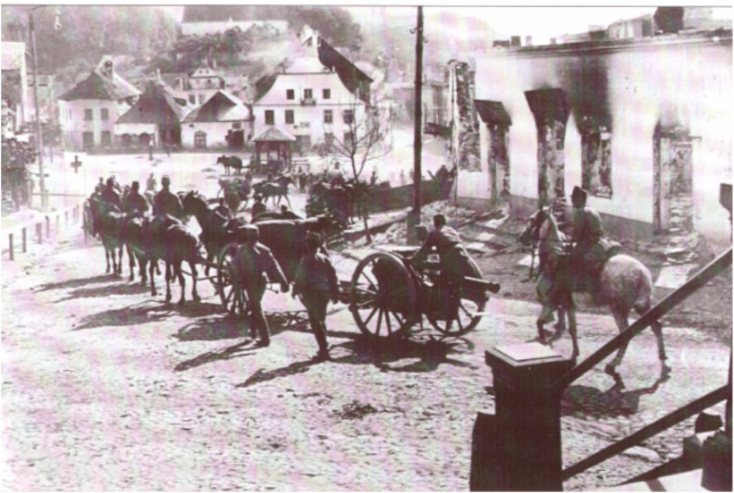 Austro-Hungarian Field Artillery